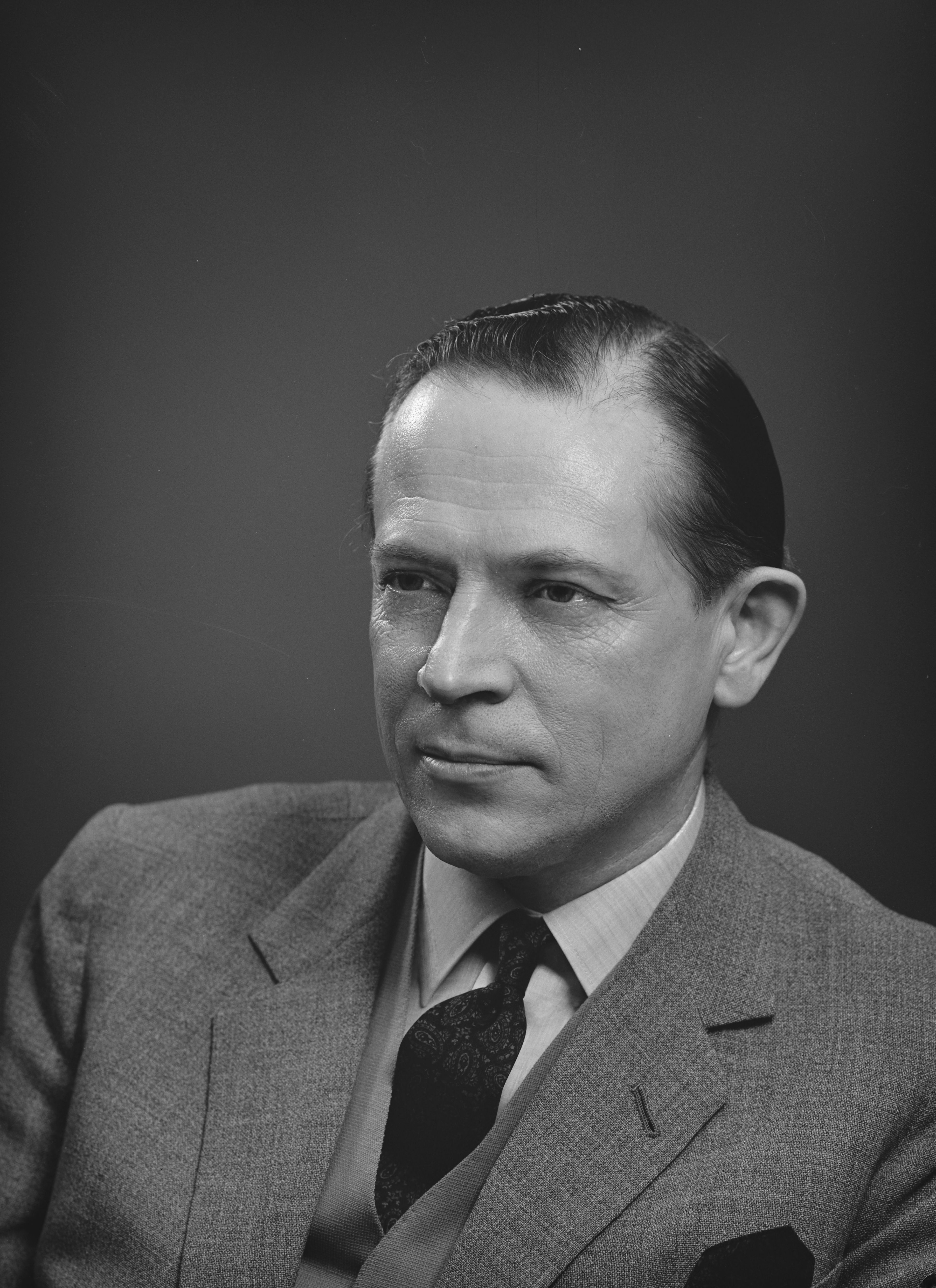 Photograph of the Finnish composer Erik Bergman (1911–2006).